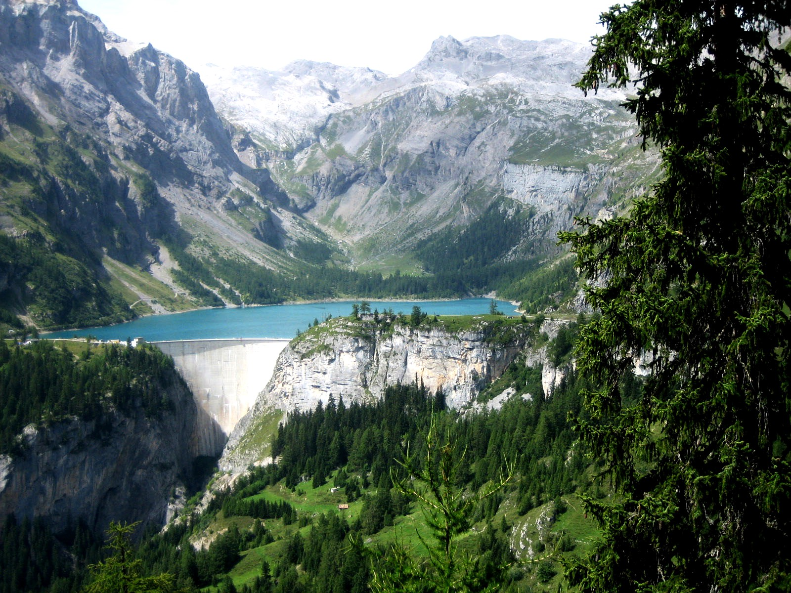 Zeuzier dam and Lac de Tseuzier in the canton of Valais, Switzerland.